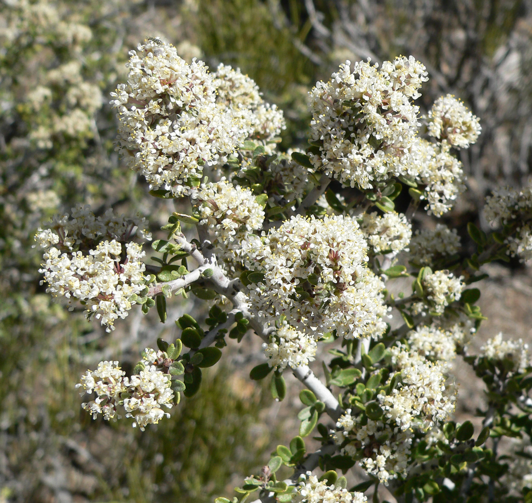 Ceanothus greggii near high point of road to Potosi Spring from route 160, 4 km SSW of Mountain Springs, Spring Mountains, southern Nevada (elev. about 1900 m)